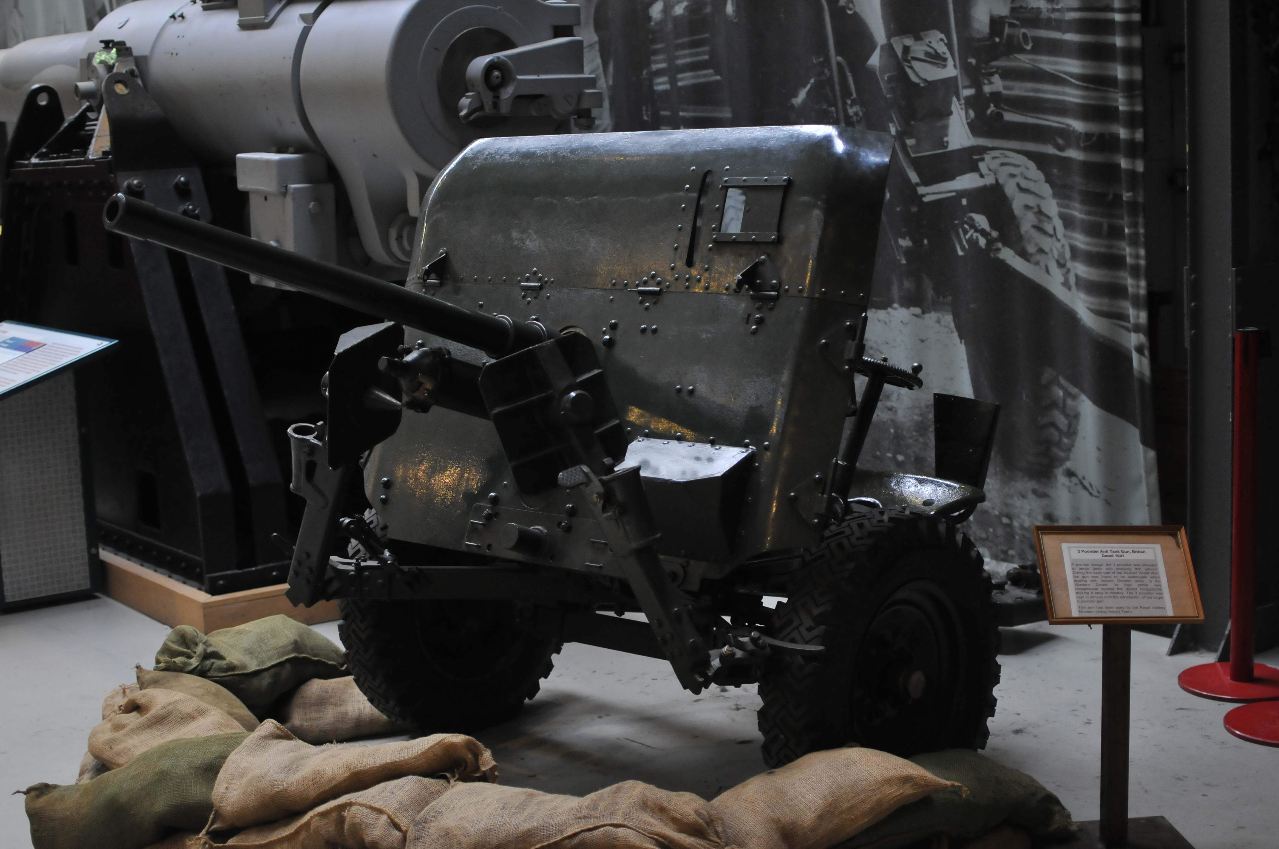 A pre war design the 2 pounder was intended to attack tanks with thin armour. It was inadequate against heavily armoured German tanks. It remained in service until replaced by the 6 pounder.